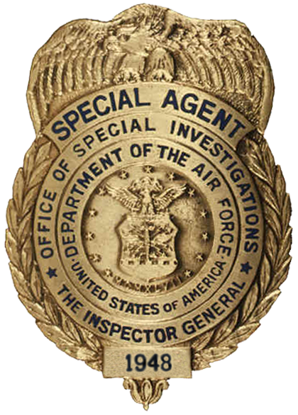 Image is similar, if not identical, to the U.S. Air Force Office of Special Investigations badge. Made with Photoshop.